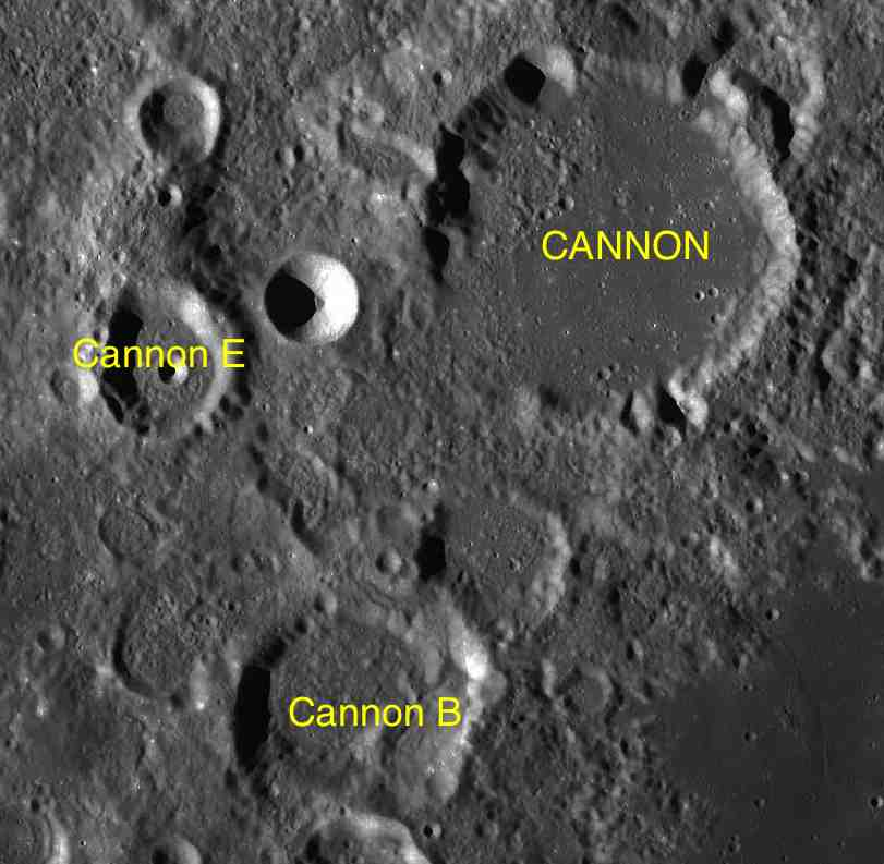 Part of the chart LAC-45 used for the presentation